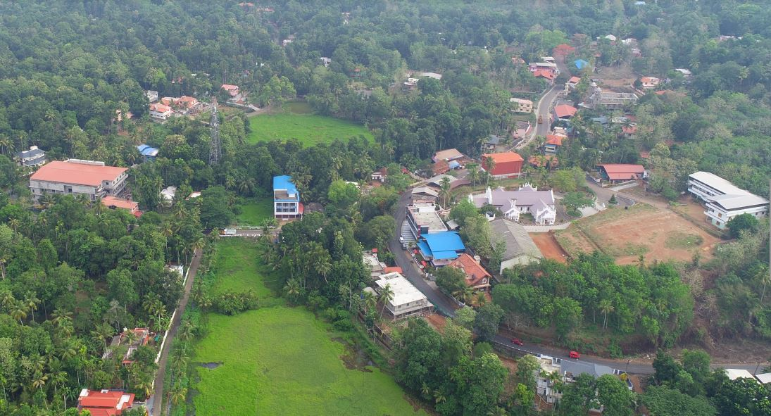 Bird´s eye view of Kodukulanji.